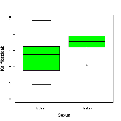 Boxplot created with R software